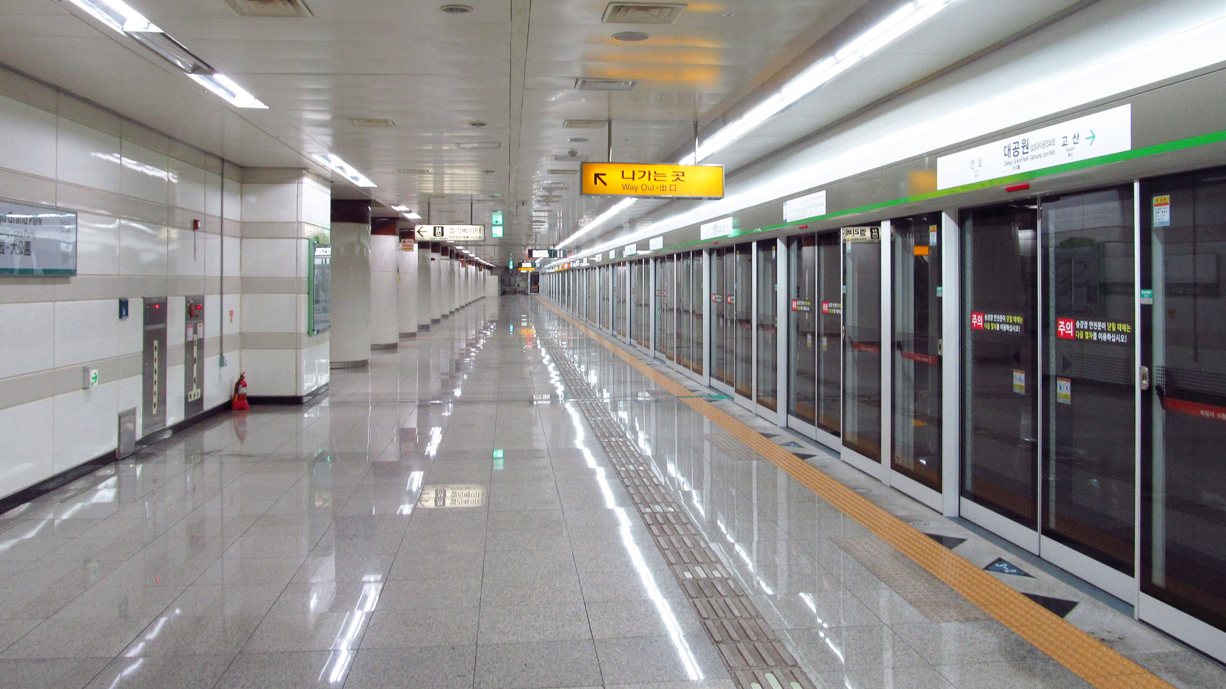 The platform of Daegu Grand Park Station on the Daegu Metro Line 2, for Gosan, Yeungnam Univ. Station